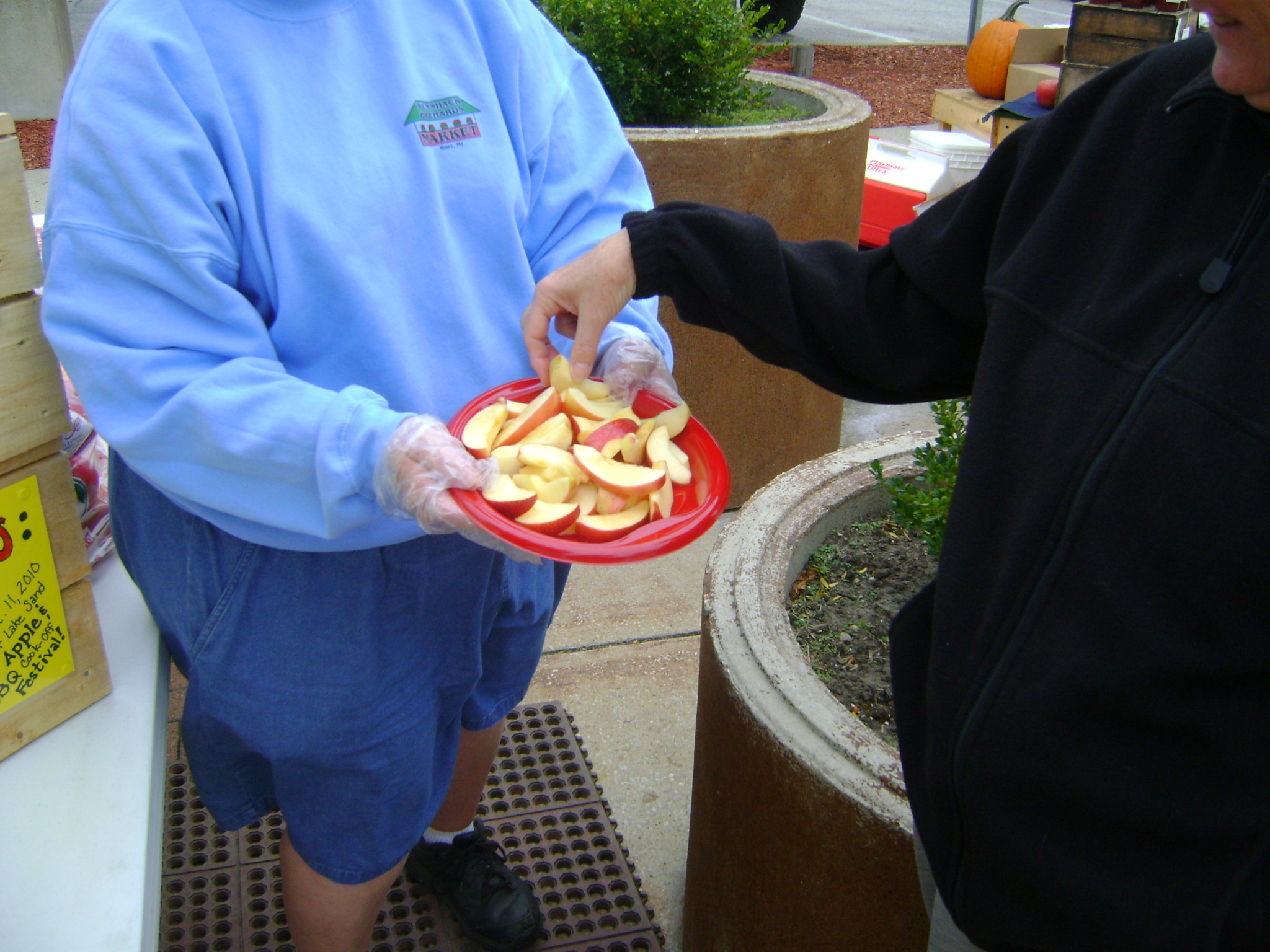 Sweetango apple samples